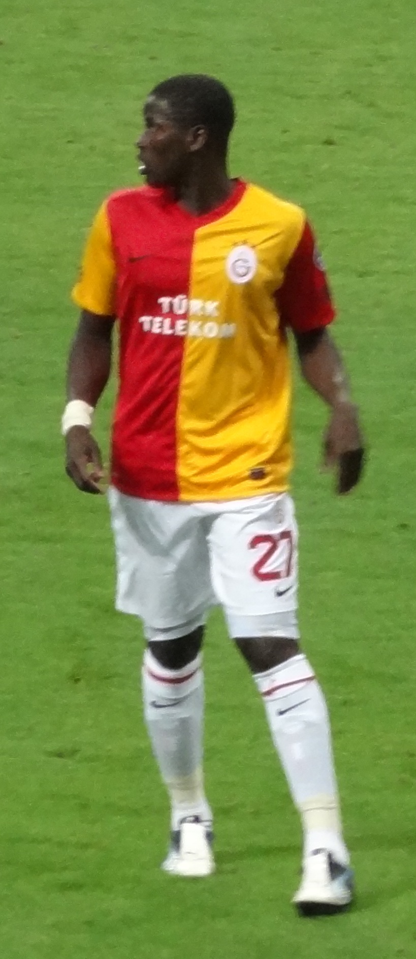 eboue played against samsun